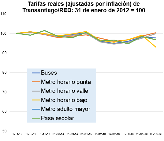 Inflation-adjusted Transantiago fares since 2012